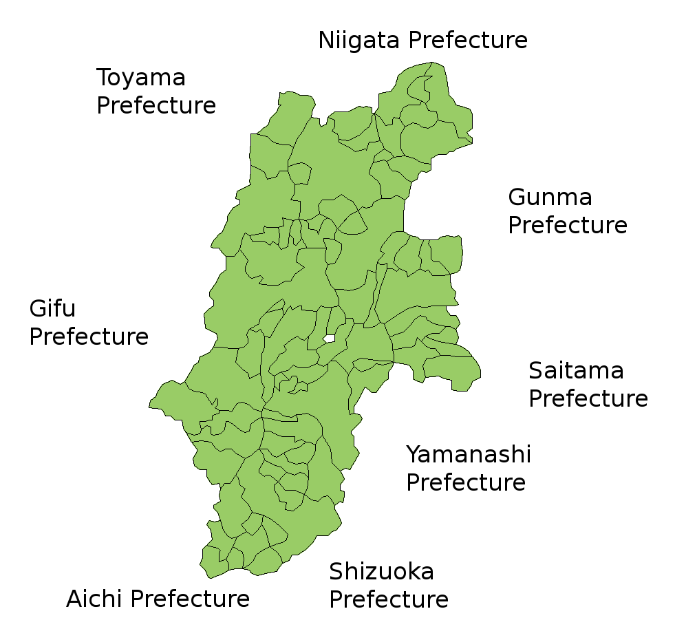 Map of Nagano Prefecture, Japan. Thanks to Aoki Shigenobu and [1]. Colors from Image:TokyoMapCurrent.png by User:Fg2.